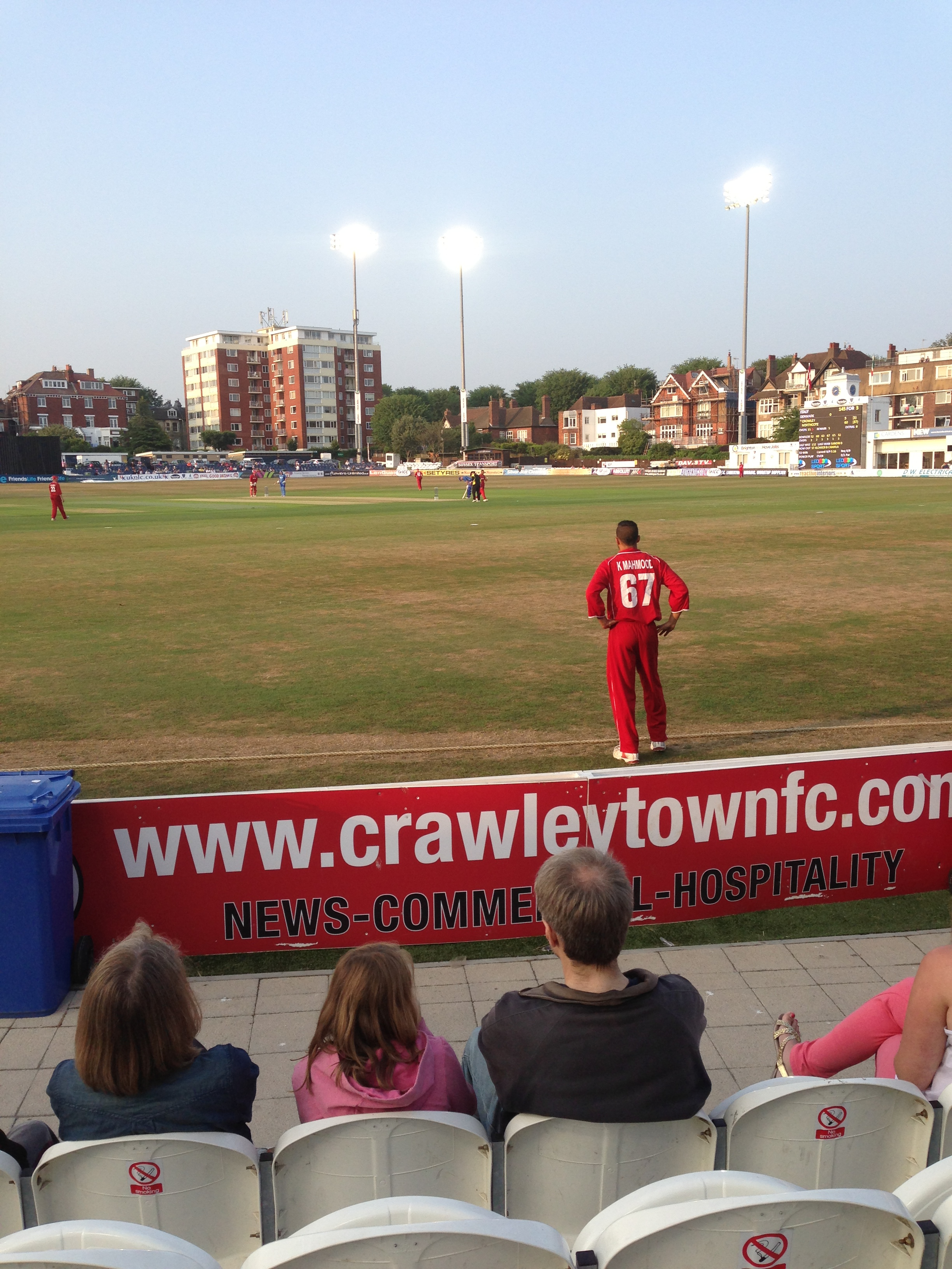 Denmark's Kamran Mahmood fielding during the final of the 2013 ICC European Twenty20 Division One tournament at the County Ground, Hove, Sussex, England.